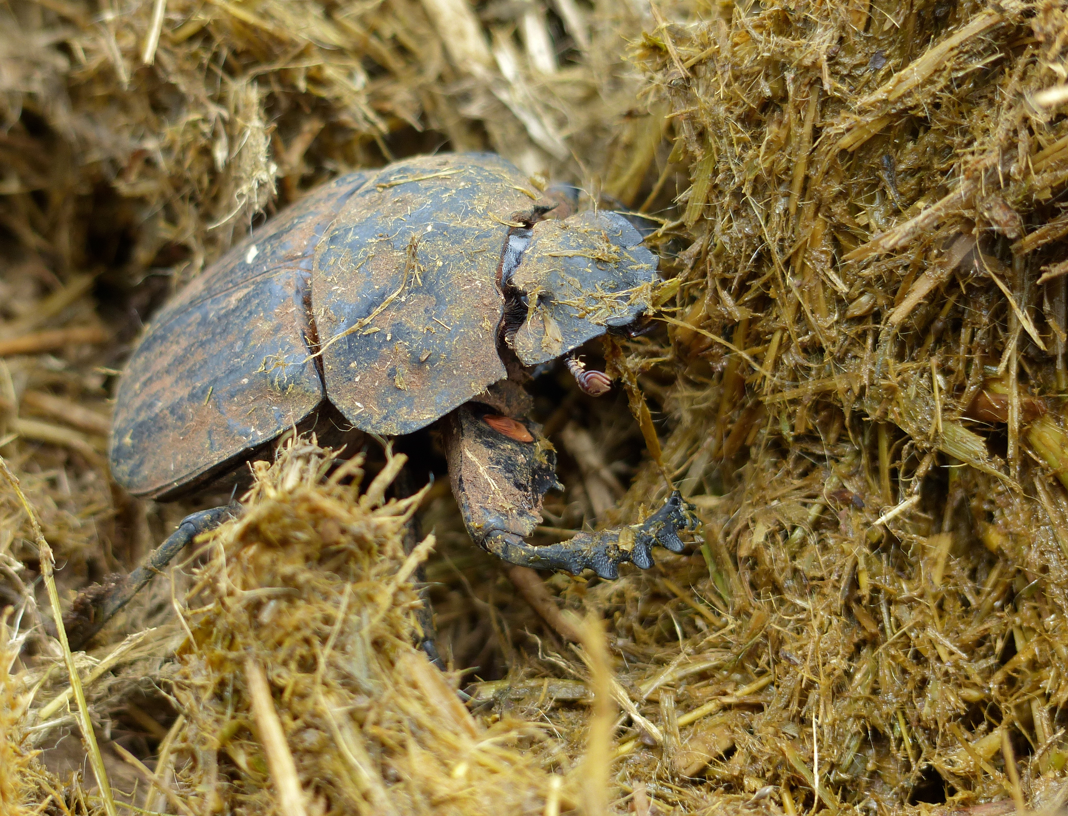 S90 Road South of Olifants, Kruger NP, SOUTH AFRICA